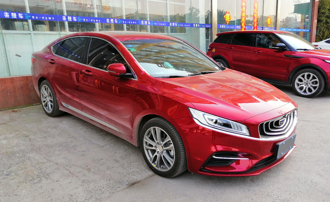 Geely Borui GE photographed in Hefei, Anhui province, China.